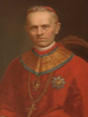 Lorinc Cardinal Schlauch 1824-1902 Bishop of Satu Mare 1873-1887, Bishop pf Oradea Mare 1887-1902 Cardinal 1894